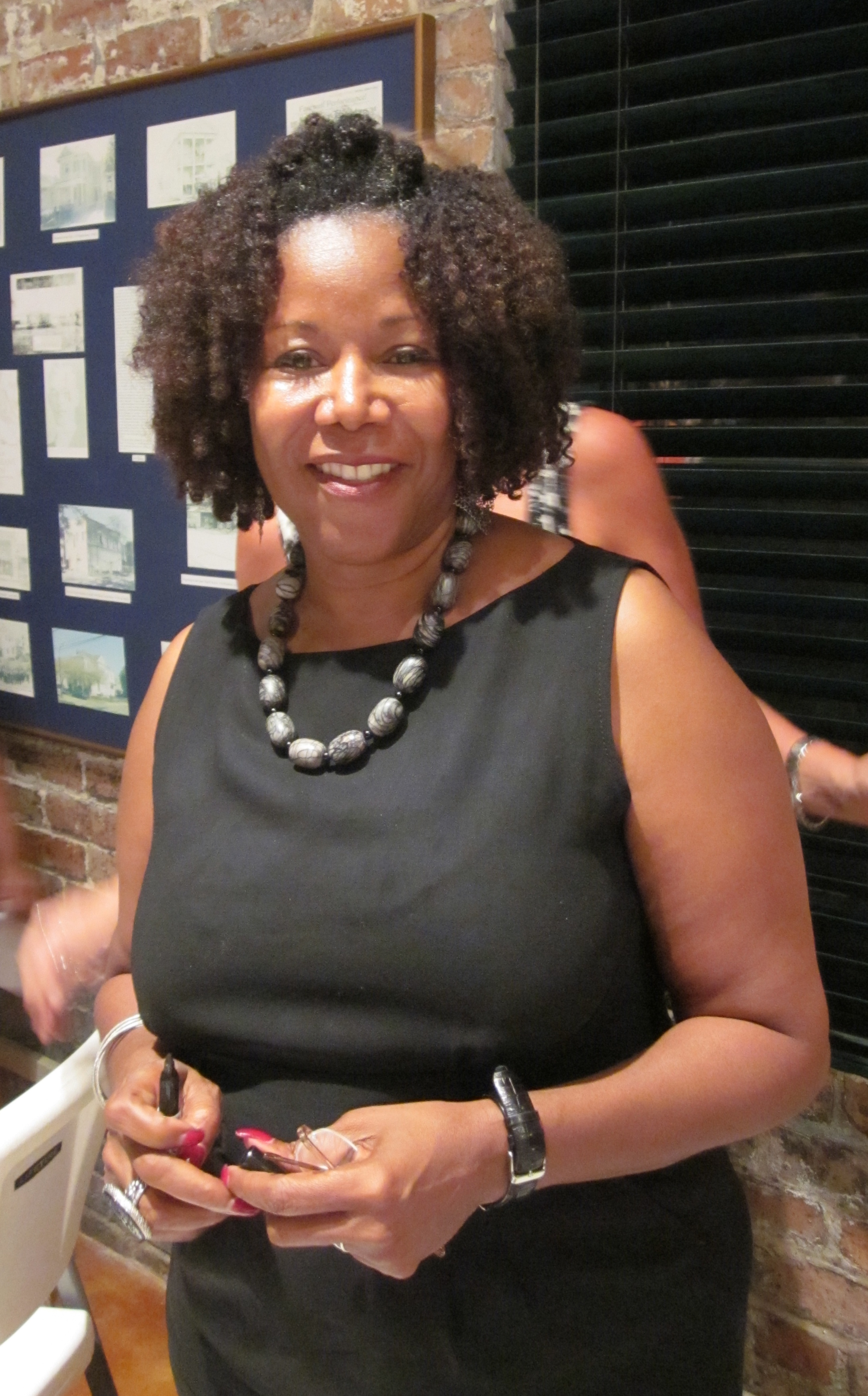 Ruby Bridges Hall speaking at Algiers Point temporary branch library, New Orleans.